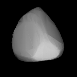 3D convex shape model of 380 Fiducia, computed using light curve inversion techniques. J. Hanuš, J. Ďurech, M. Brož, B. D. Warner (June 2011). "A study of asteroid pole-latitude distribution based on an extended set of shape models derived by the lightcurve inversion method". Astronomy and Astrophysics 530: A134. ISSN 0004-6361. arXiv